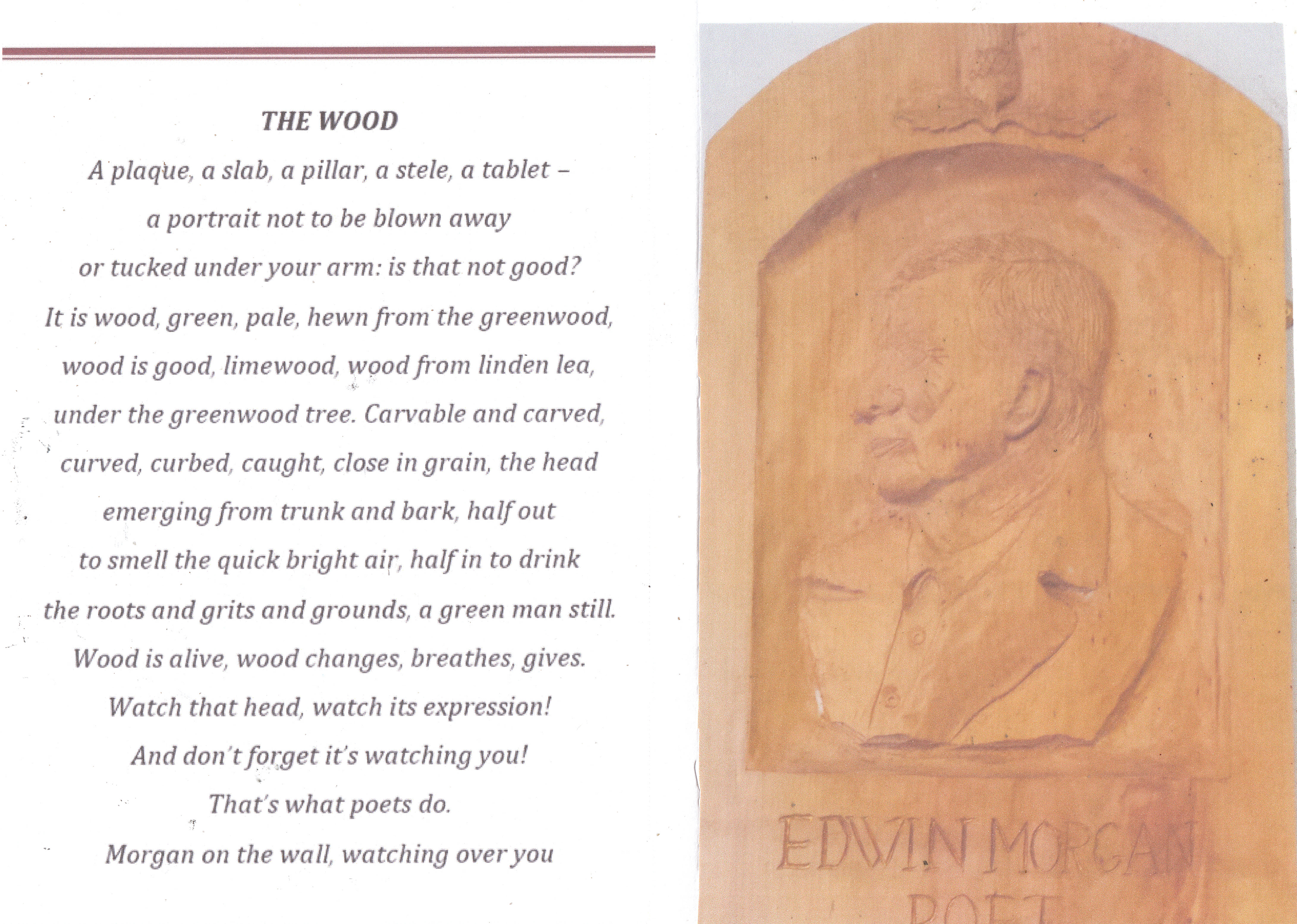 National Poet of Scotland Edwin Morgan's Epitaph poem 'The Wood' based on a Limewood carving of him by R.D. Innes